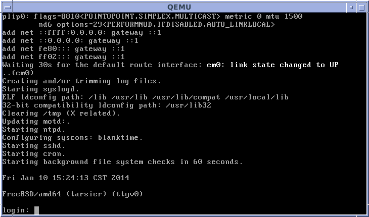 FreeBSD 9.1 startup and console login. Running in a QEMU VM.